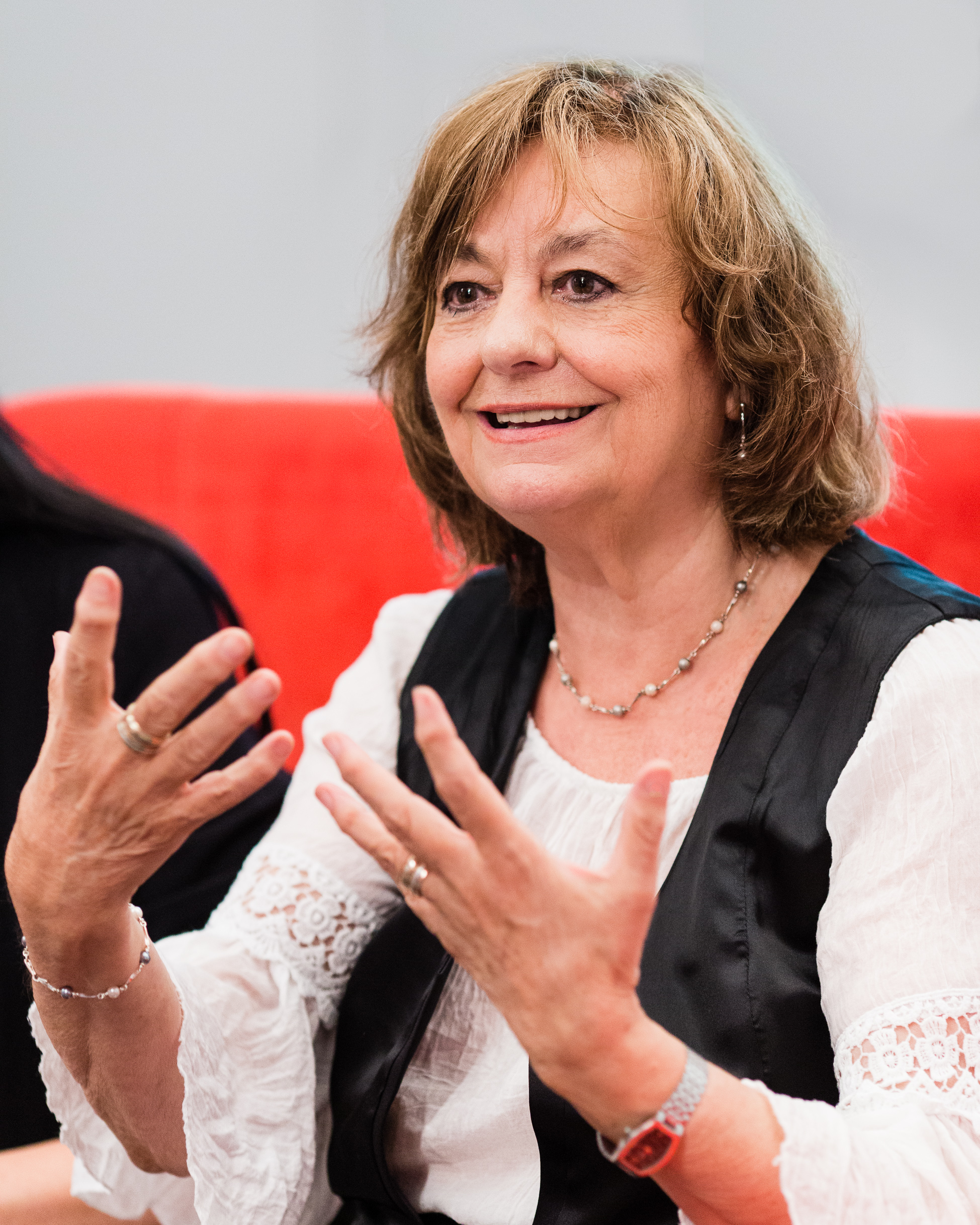 Ana Blandiana on Authors’ Reading Month 2019, Wrocław, Poland